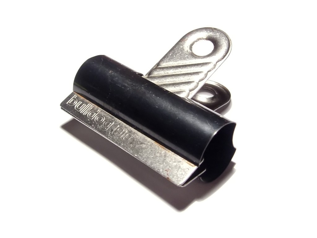 By Richard Wheeler (Zephyris) 2007.